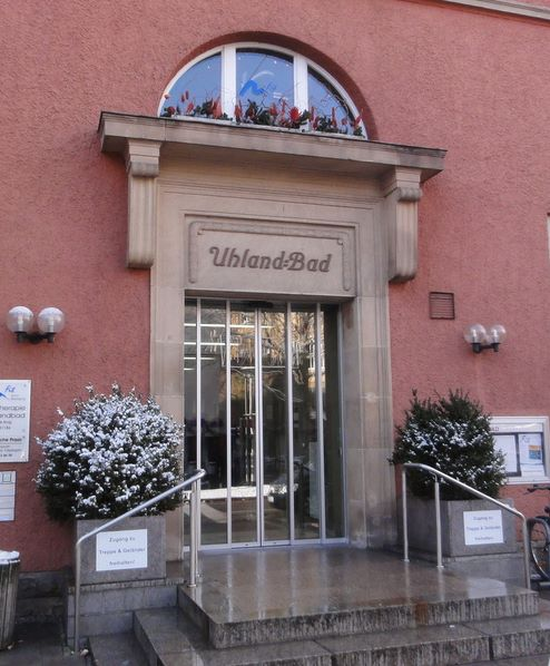 Communal Swimming pool "Uhland-Bad" in Tübingen